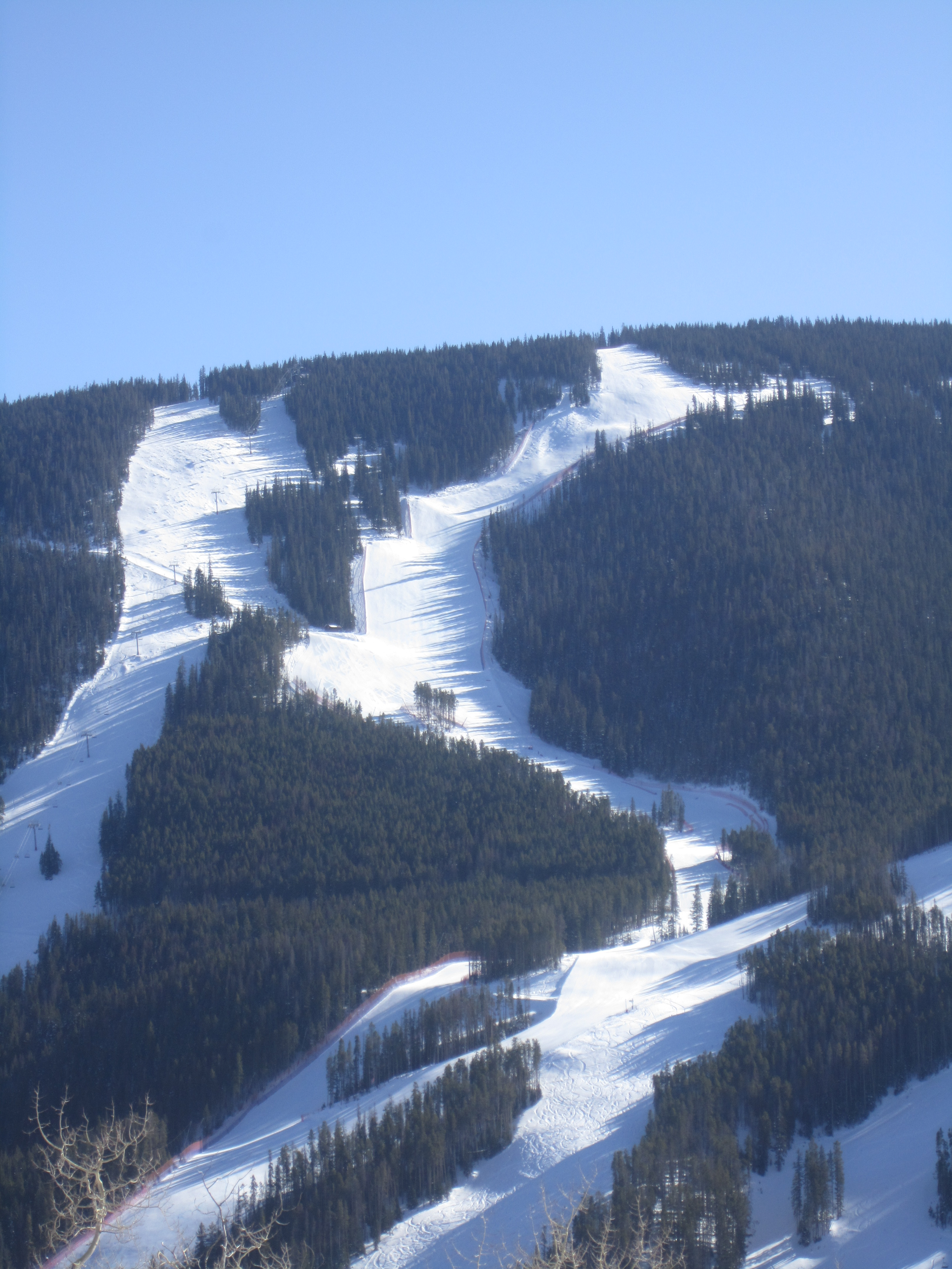 Birds of Prey World Cup Alpine Ski Course at Beaver Creek Resort, Colorado